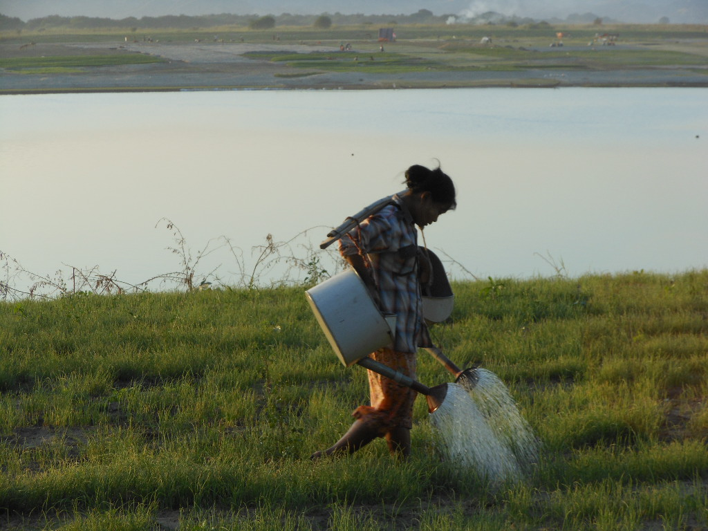 Watering Crops